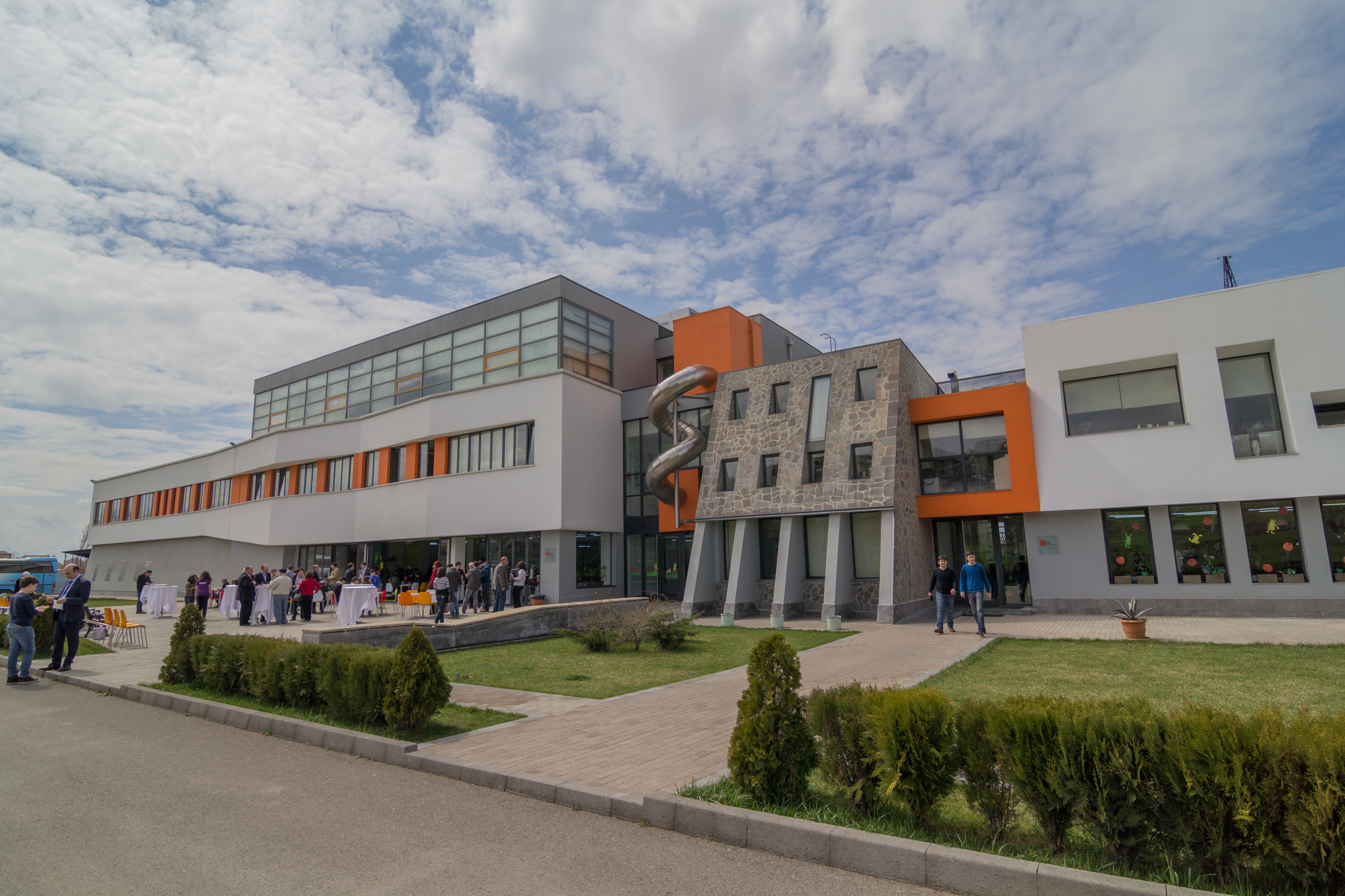 The Ayb High School in Yerevan, Armenia. Taken after the first of three AGBU Talks as part of the Armenian General Benevolent Union's 88th General Assembly.